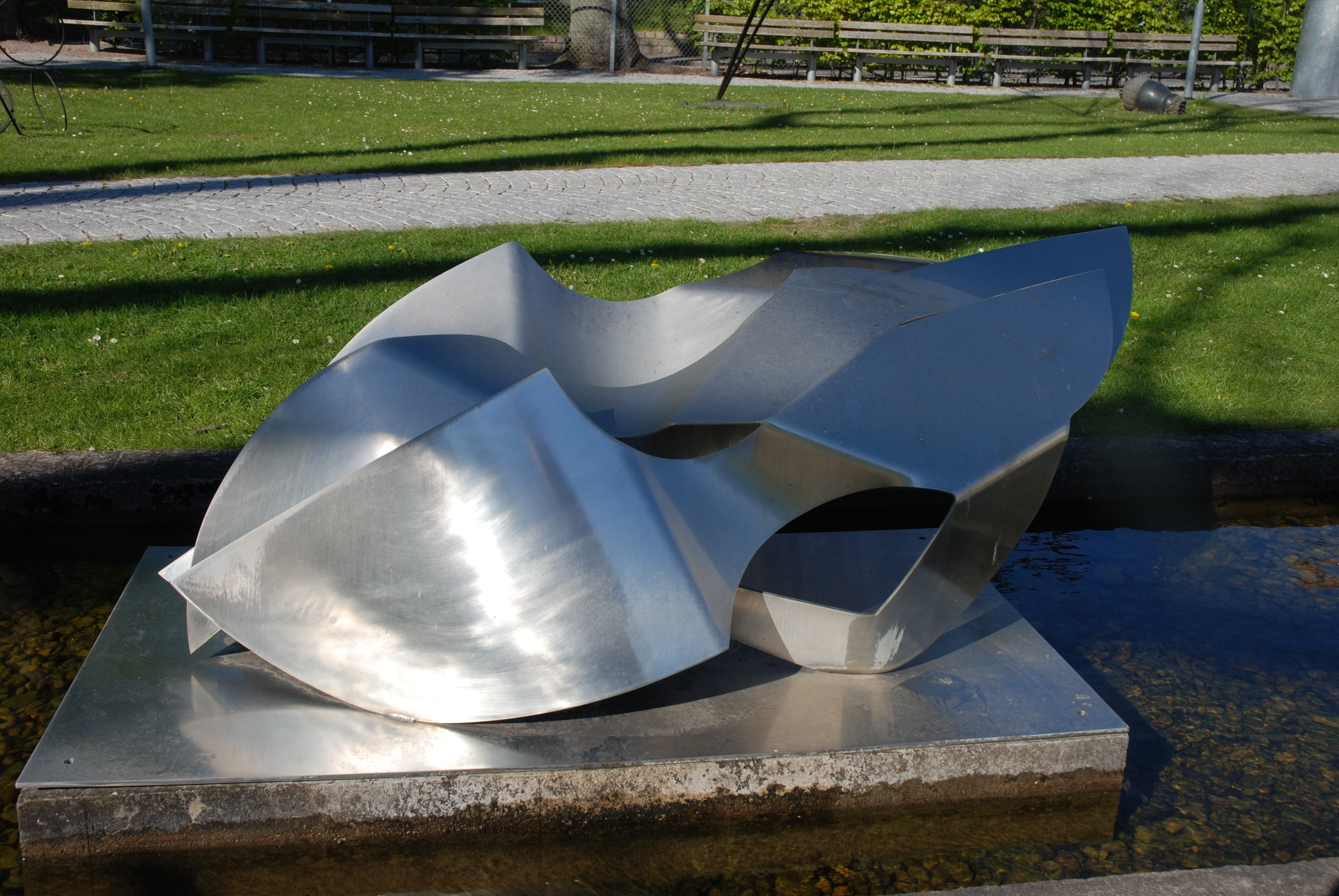 Elli Hemberg' s Badande, stainless steel, 1978